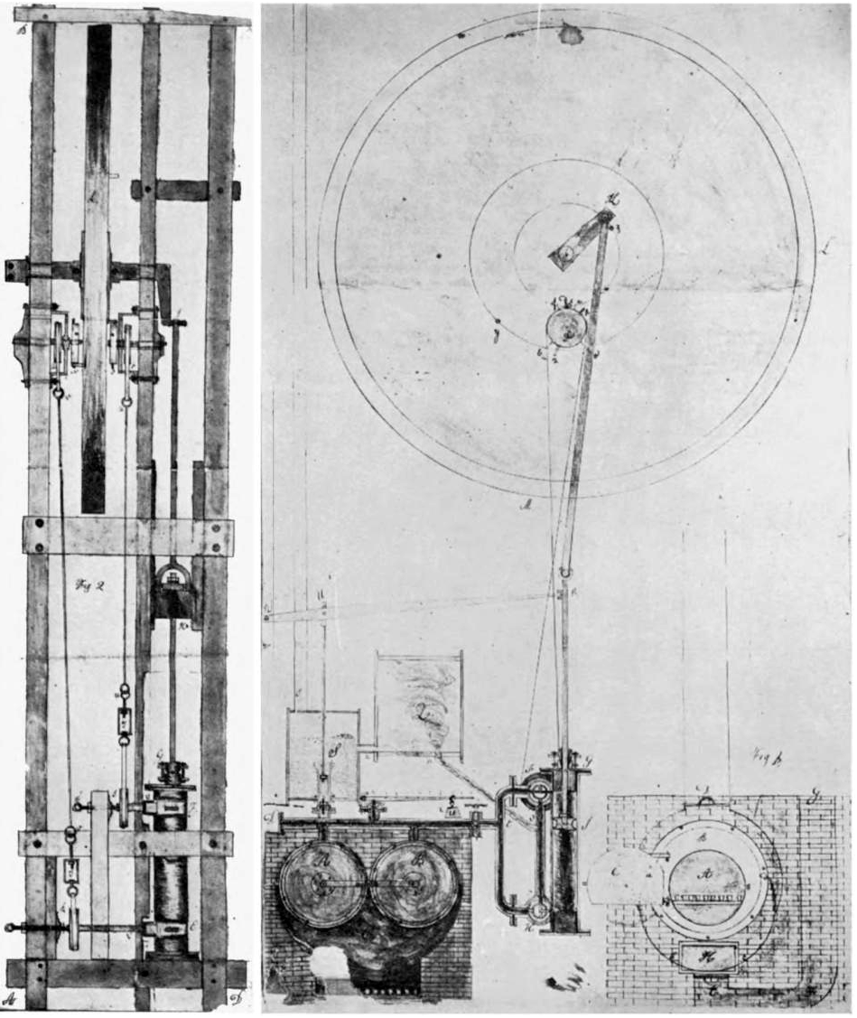 Evans' sketches of his first steam engine, circa 1803. Notable features include a twin boiler, 3-way valves, and a highly compact double-acting steam piston.